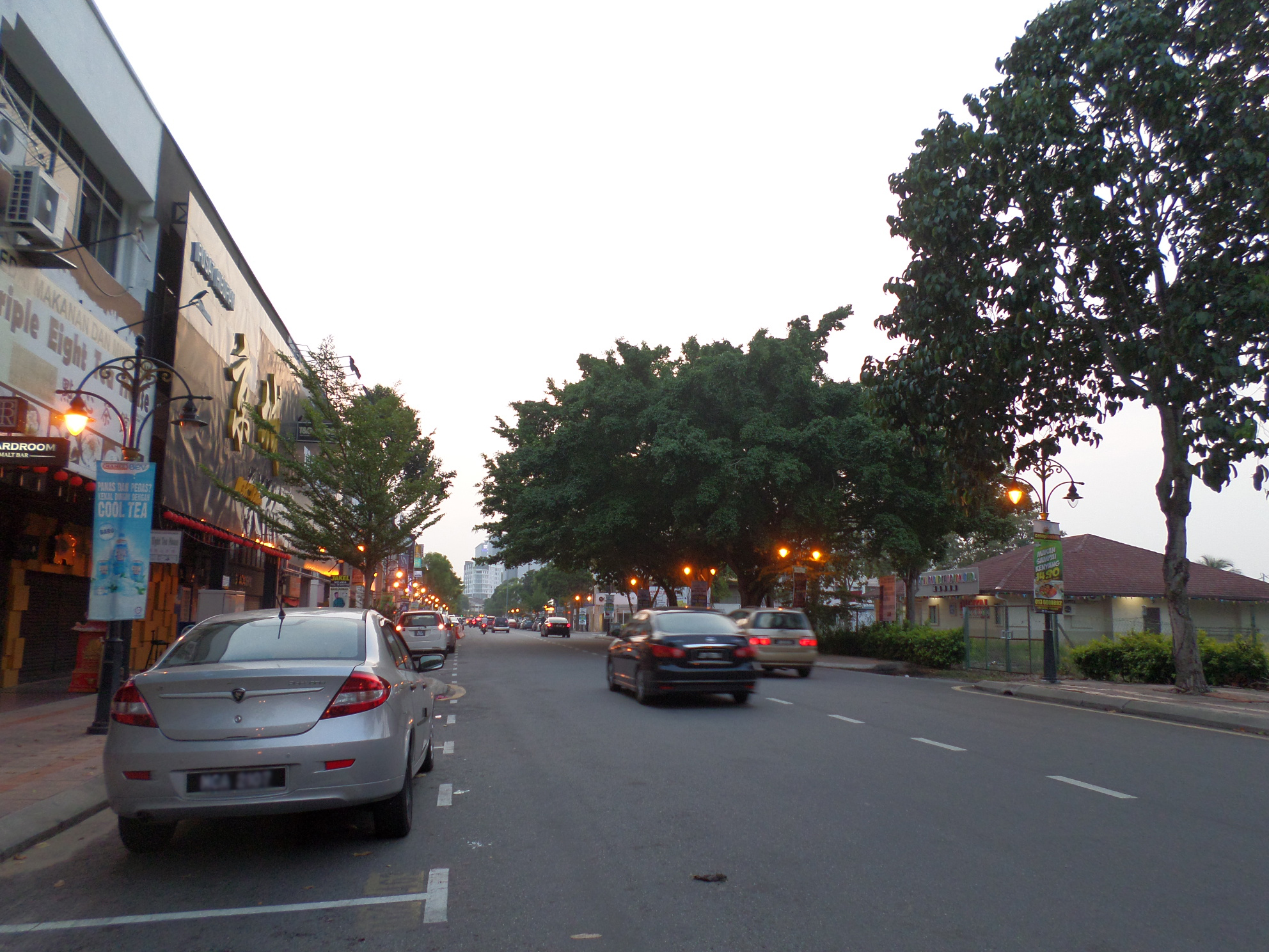 Melaka Raya, Melaka City, Central Melaka, Melaka, MalaysiaBahasa Melayu: Melaka Raya, Bandaraya Melaka, Melaka Tengah, Melaka, Malaysia